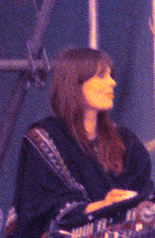 Nico, Hyde Park Concert 1974